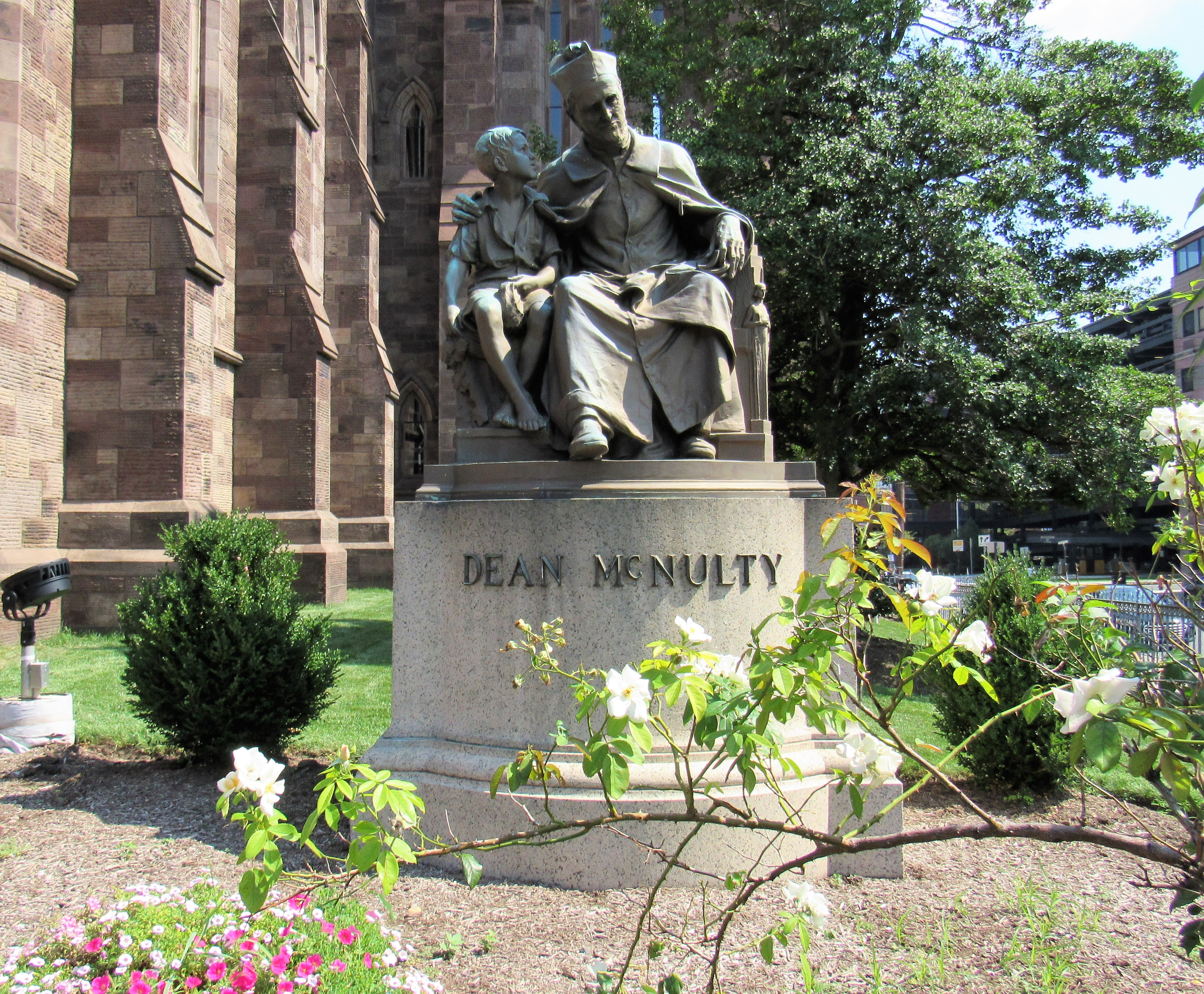 The monument to the Very Rev. William McNulty at the Cathedral of St. John the Baptist in Paterson, New Jersey.